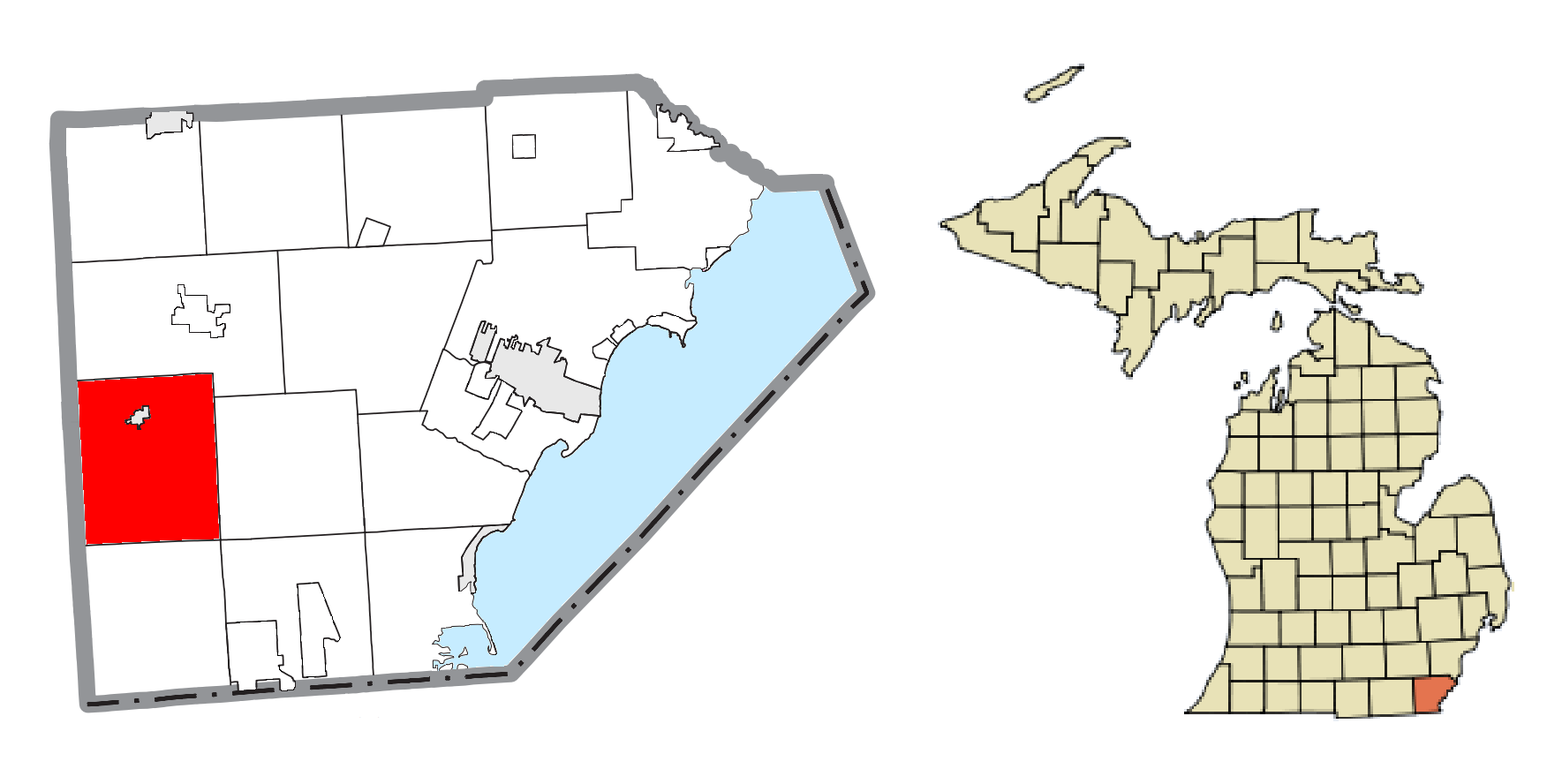 Summerfield Township, MI